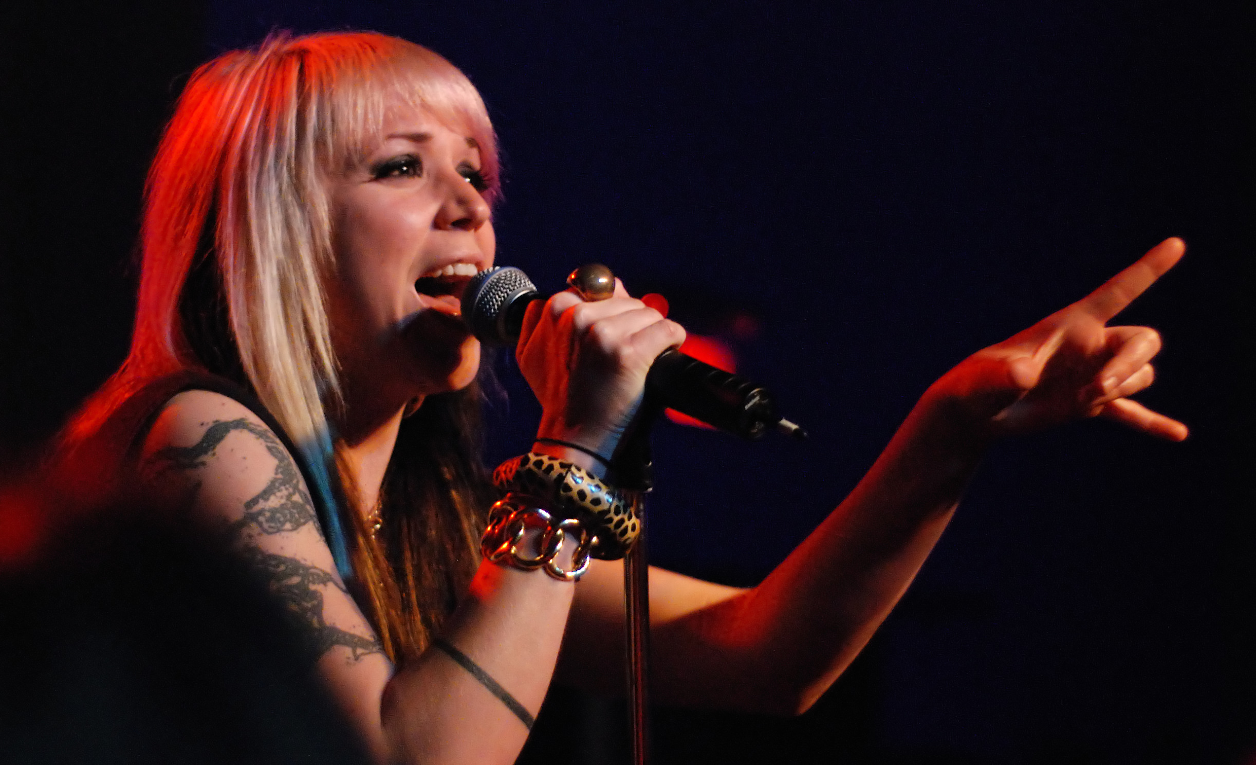 Suzie McNeil performing in Oshawa December 16, 2007